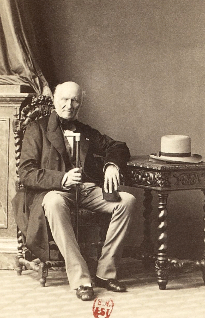 Élie, duc Decazes (1780-1860), french Prime Minister of king Louis XVIII in 1820, during the Second Restoration.